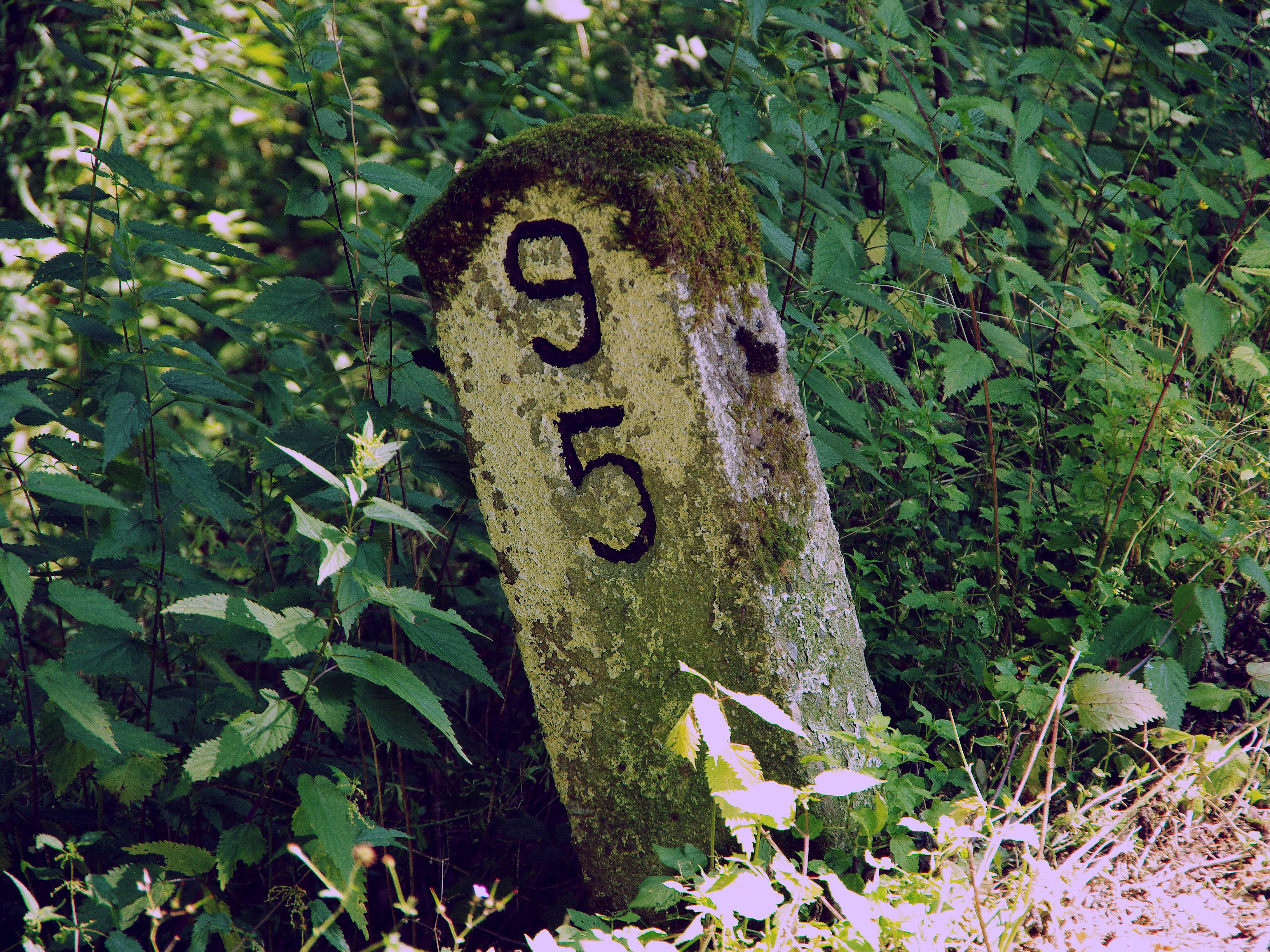 Old milestone at former railway track from Lengenfeld to Göltzschtalbrücke, Germany